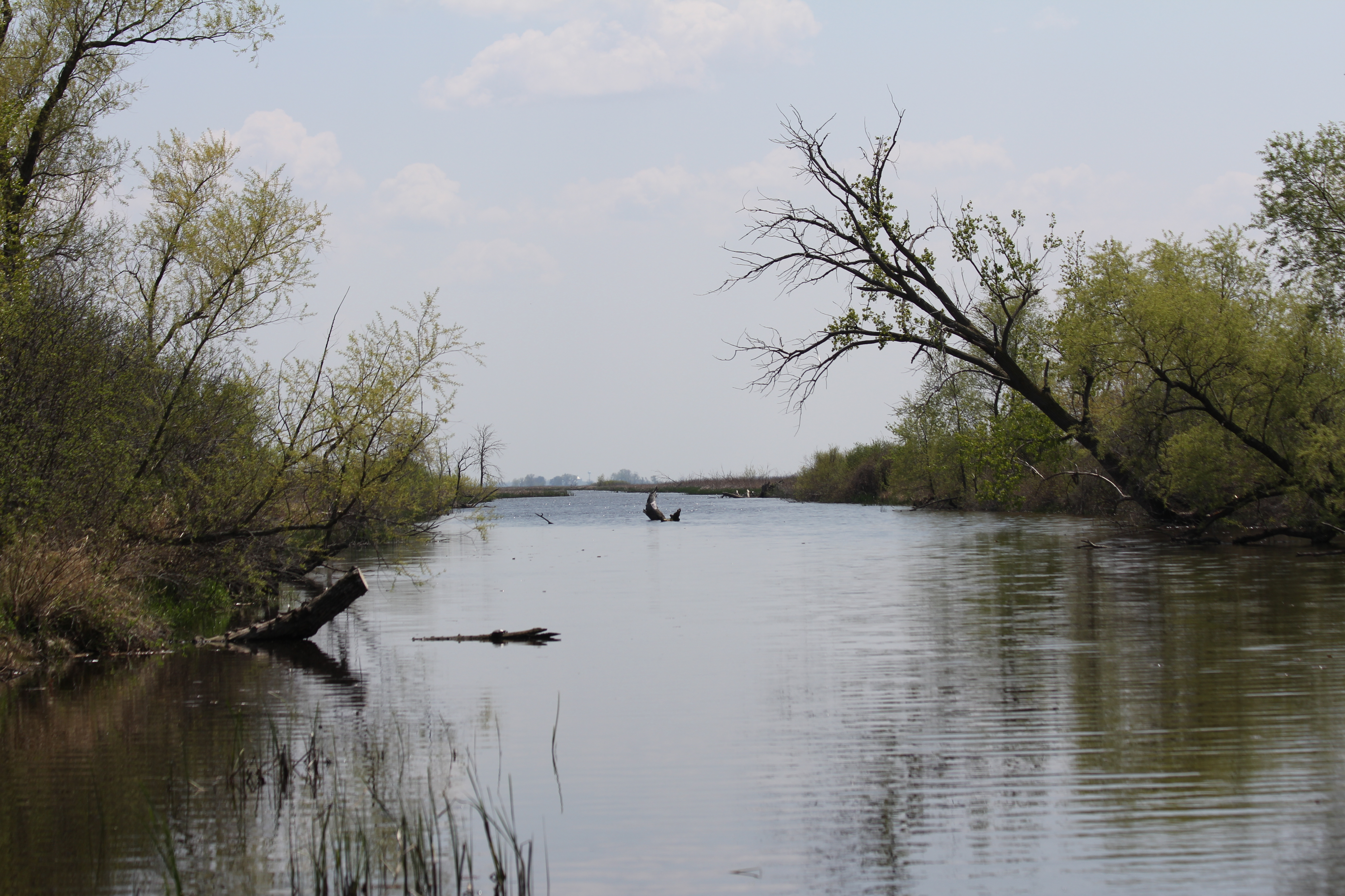 The central channel in the middle of the Horicon Marsh.